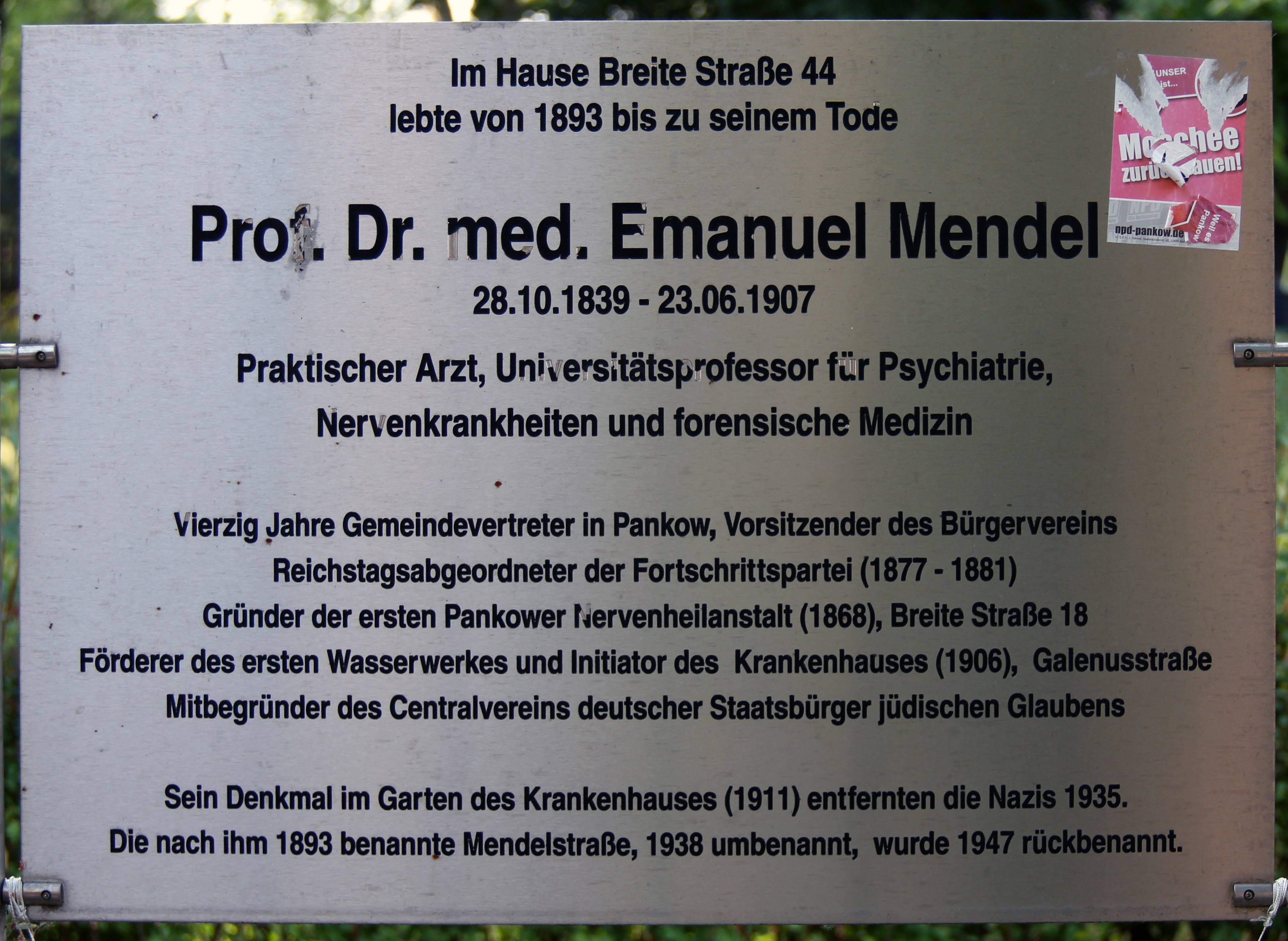 Memorial plaque, Emanuel Mendel, Breite Straße 44, Berlin-Pankow, Germany